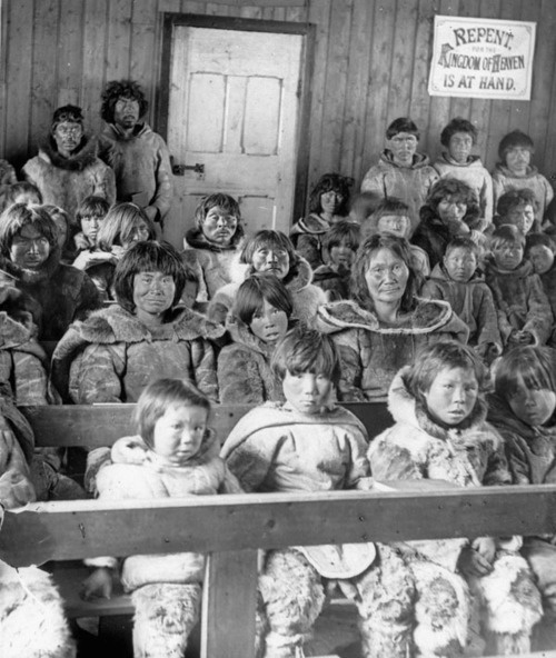 Inuit in church, Whale River, Quebec